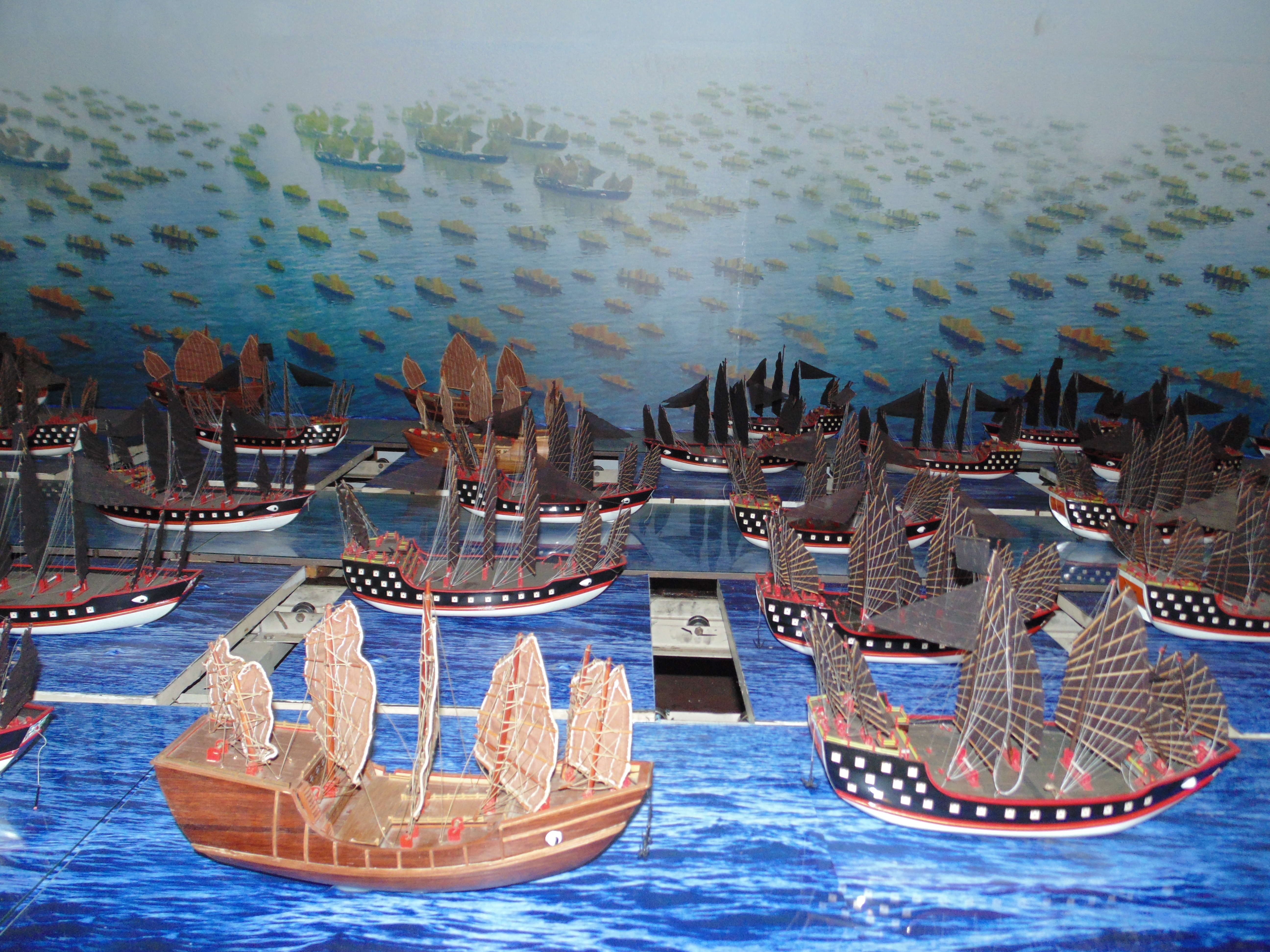 Cheng Ho Cultural Museum - Exhibition